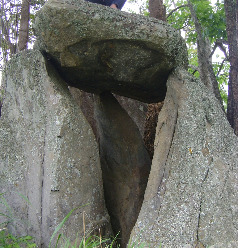 A unique dolmen in Anicuns, Goiás, Brazil. One of the only dolmens of Brazil, and South America.